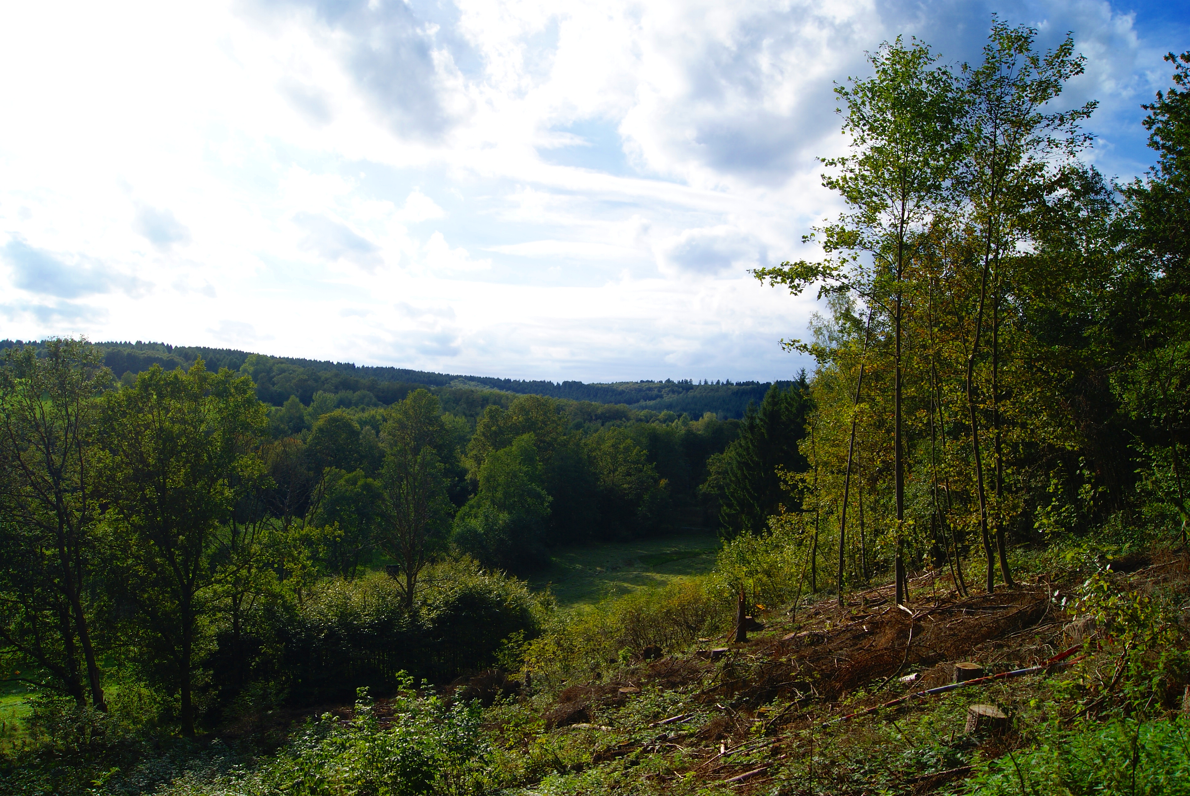 Forests between Alte Heide and Mausbauch in Freudenberg, Northrhine-Westfalia, Germany.